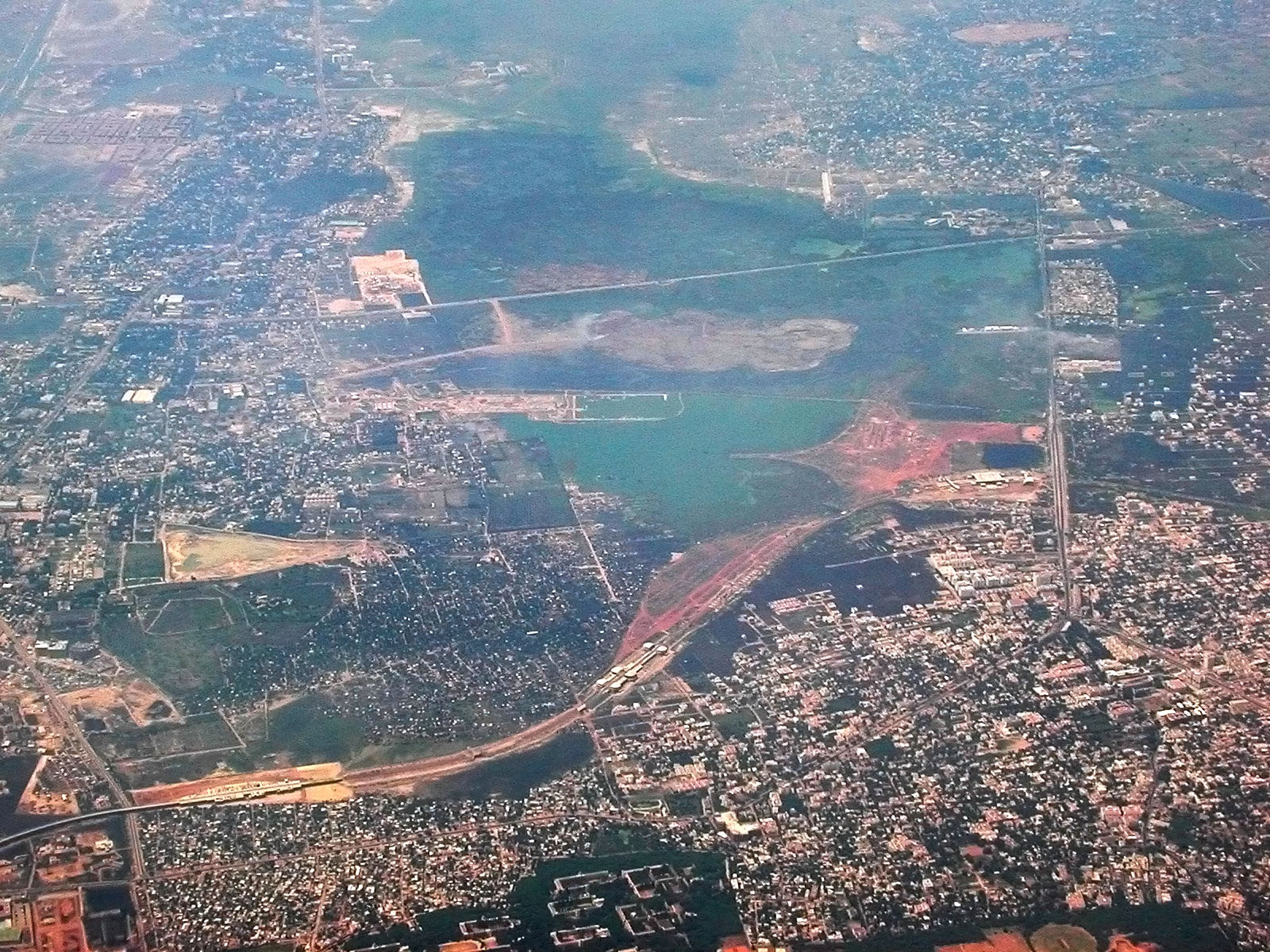 Aerial view of the Taramani, Perungudi, Thuraipakkam and Velachery areas of Chennai, looking south. The Chennai MRTS stations of Taramani, Perungudi and Velachery are under construction. Also visible is the Perungudi marsh.